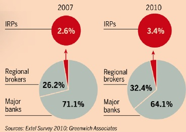 доля независимый аналитических агентств в брокерских комиссиях